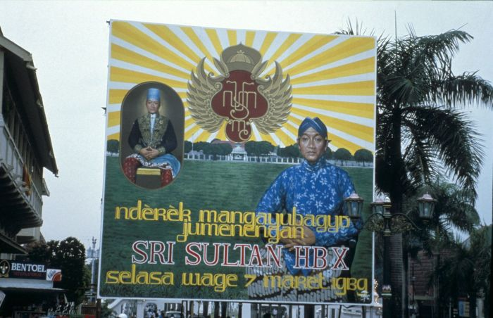 Billboard announcing the coronation of Sultan Hamengku Buwana X on 7 March 1989